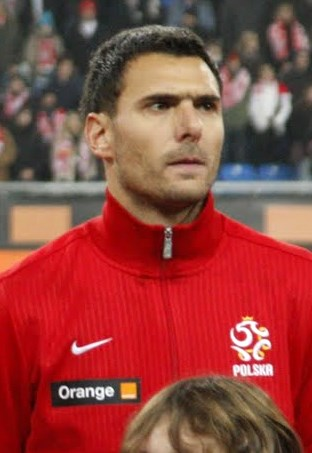 Polish football player Grzegorz Wojtkowiak